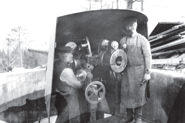 10,5 cm gun being installed in shielded mount at Hegra Fortress, Norway